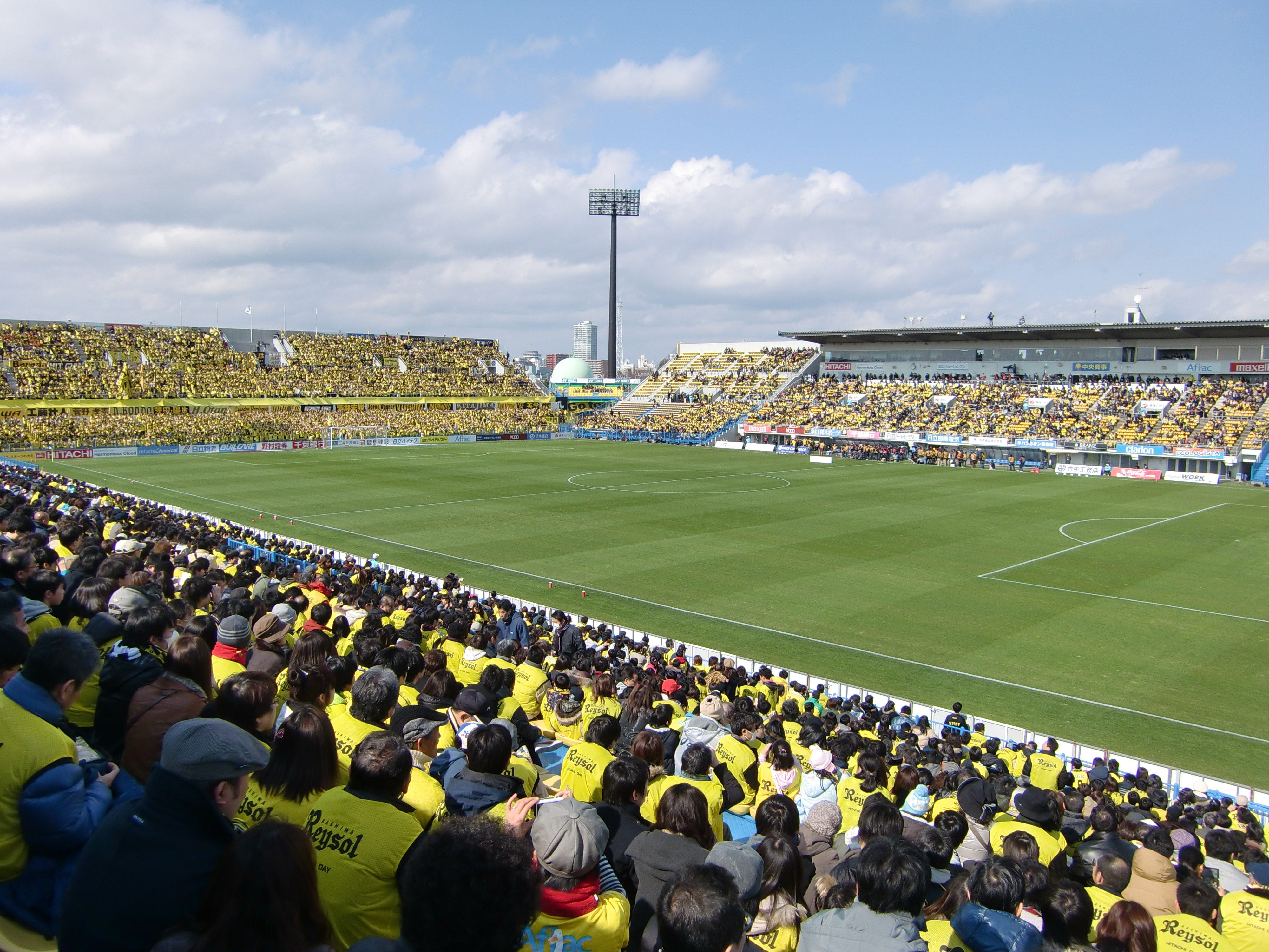 Hitachi-Kashiwa Soccer Stadium